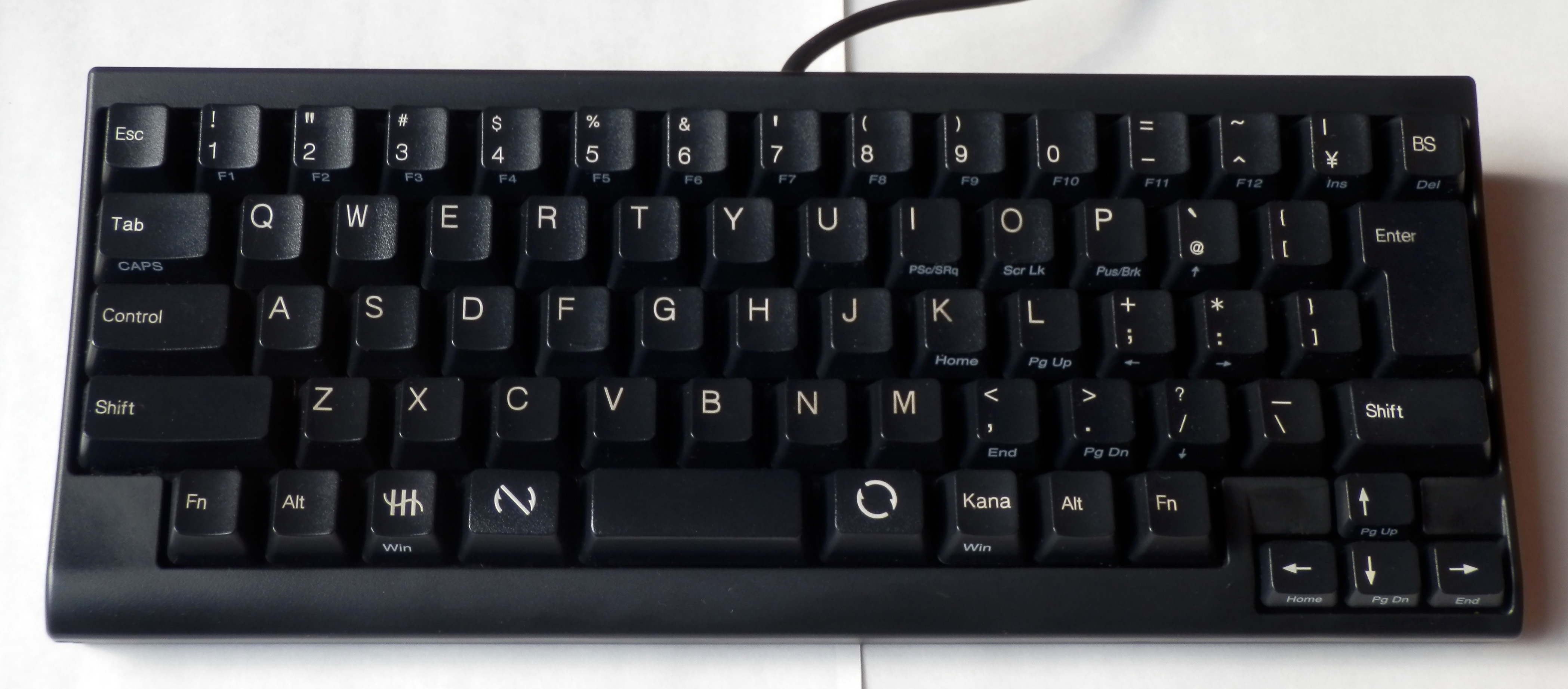 Happy Hacking Keyboard Lite 2